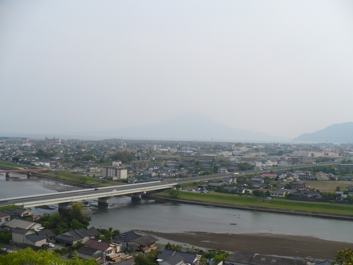 South part of Aira town seen from Yoneyamayakushi, Kagoshima prefecture, Japan